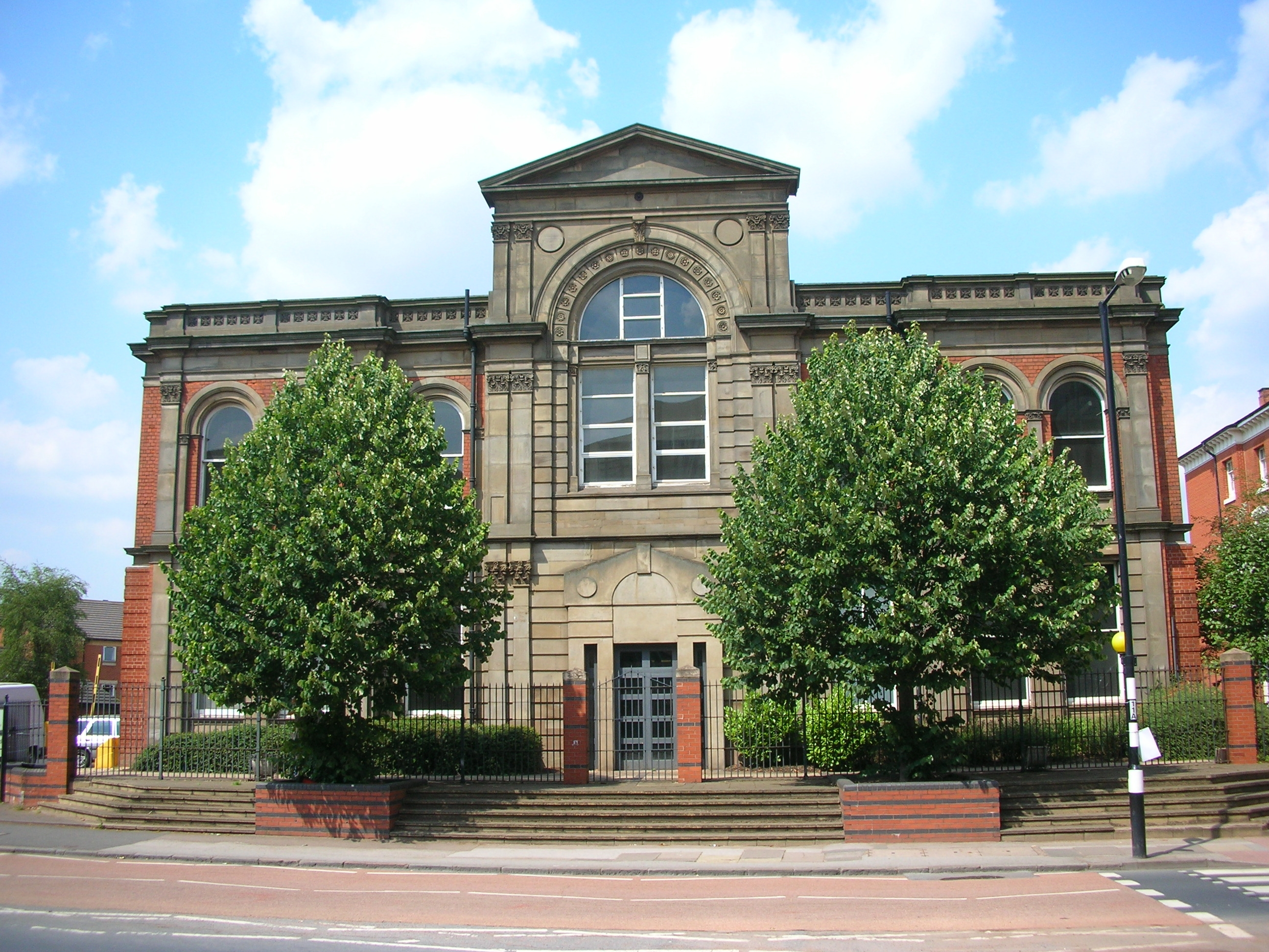 West wing added to the former Birmingham Accident Hospital in Bath Row, Birmingham, England. 1873 by Martin & Chamberlain.